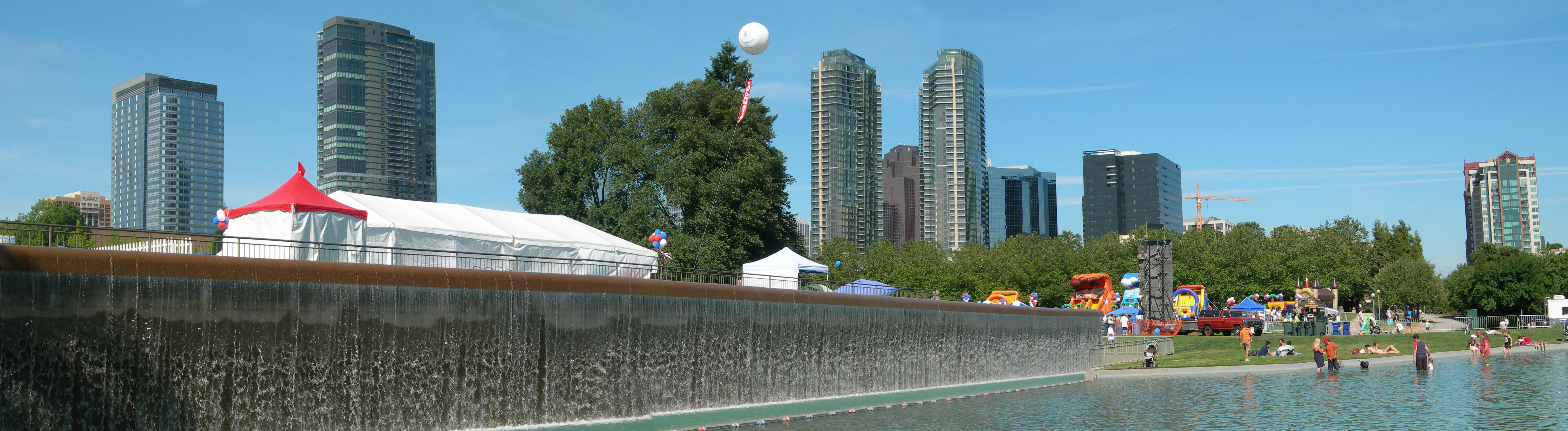 Downtown Bellevue, WA